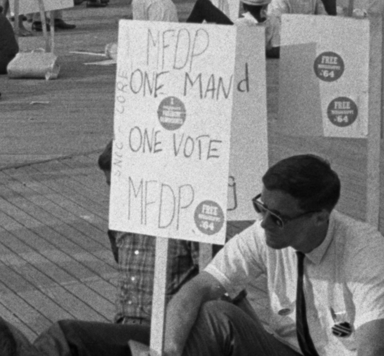 African American and white supporters of the Mississippi Freedom Democratic Party holding signs in front of the convention hall at the 1964 Democratic National Convention, Atlantic City, New Jersey; some signs read "One man, one vote, MFDP"